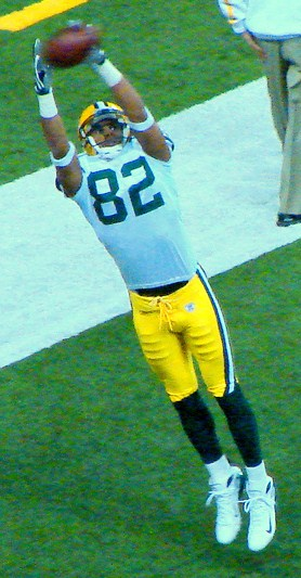 Ruvell Martin in pregame warmups.